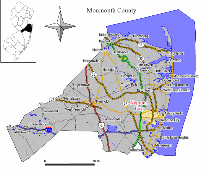 Source: Jim Irwin